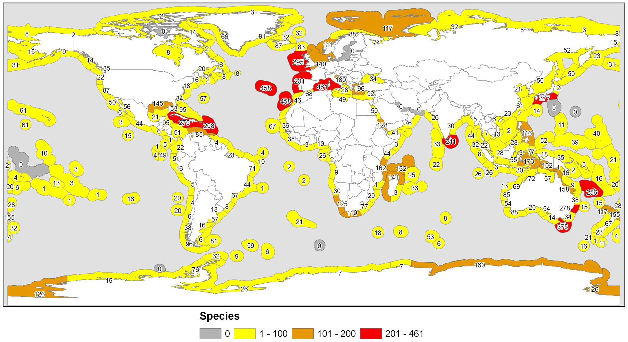 Numbers of sponge species recorded in each of 232 marine ecoregions of the world extracted from the World Porifera Database (available: accessed 2011 Aug 31). The type localities and additional confirmed occurrences in neighboring areas of almost all ‘accepted species’ were entered in one or more of the Marine Ecoregions of the World, but many non-original distribution records in the literature are still to be evaluated and entered. Moreover, many sponge taxa are recorded in the literature undetermined and these are not included in the WPD. Thus, the data presented here are to be considered a conservative or ‘minimal’ estimate of the actual distributional data.